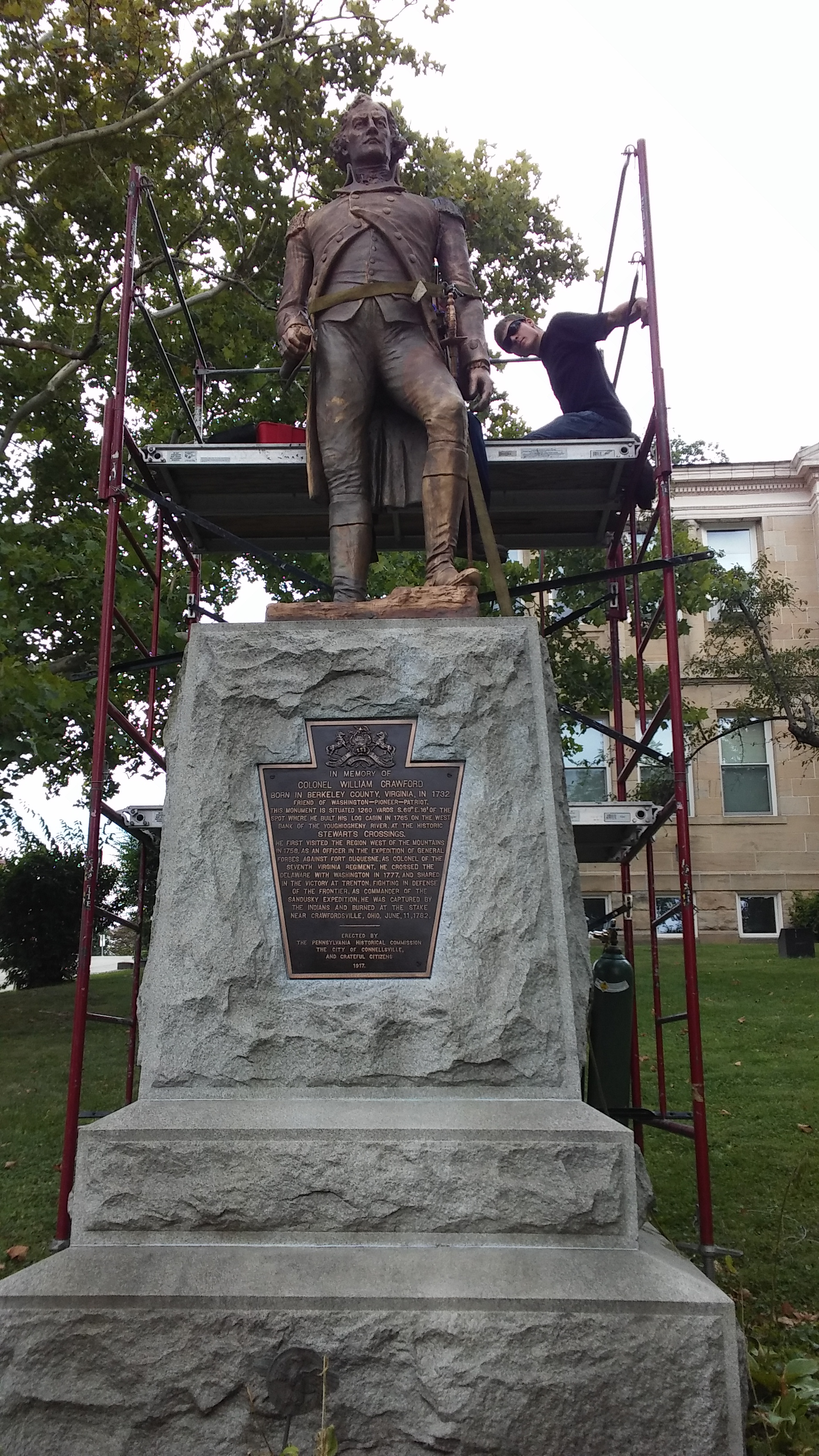 Col. William Crawford Statue located in front of the Connellsville Carnegie Free Library, Connellsville, Pennsylvania.